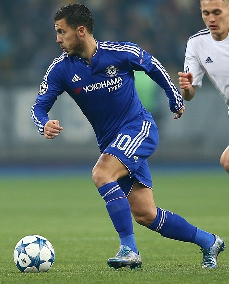 Eden Hazard